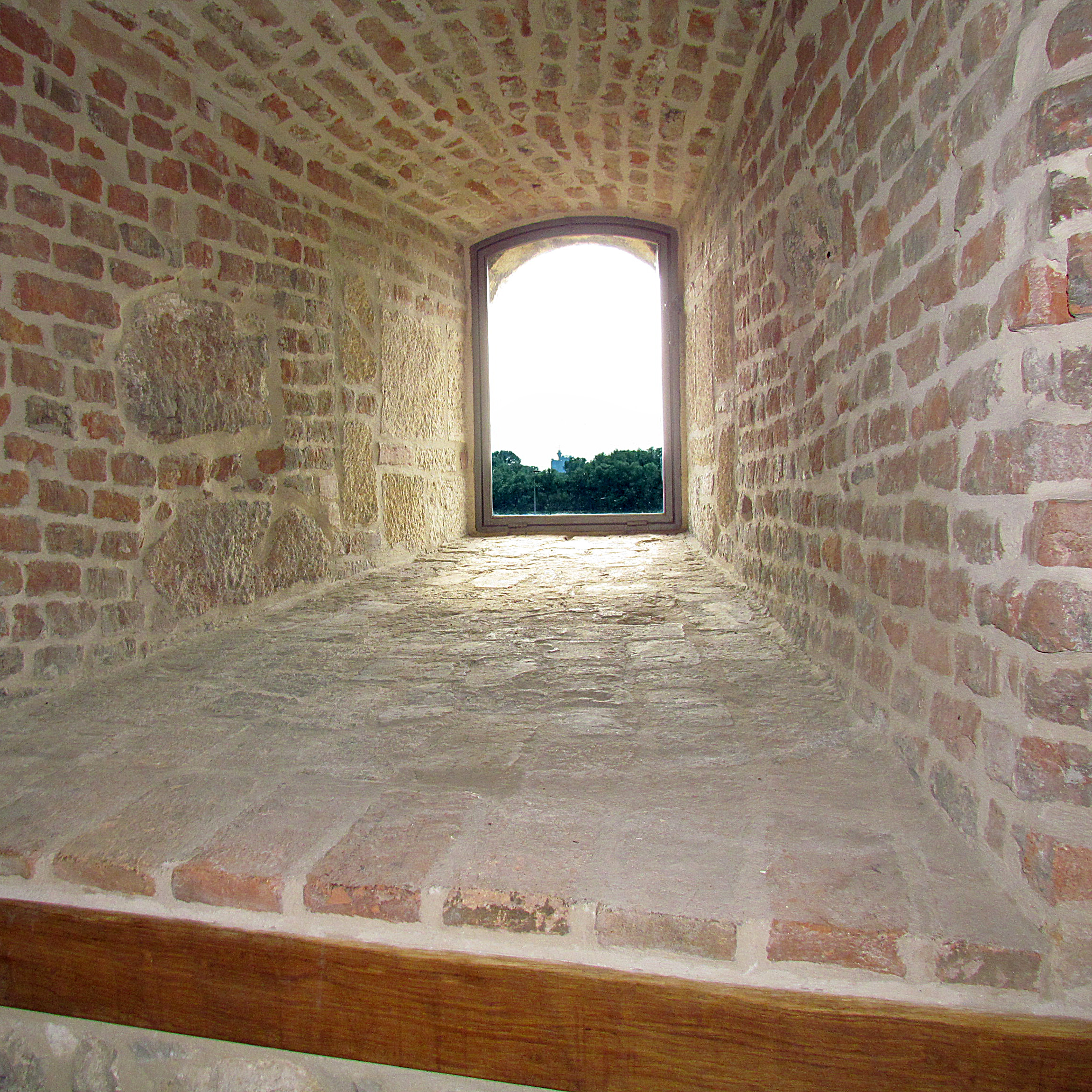 Nebojša Tower window